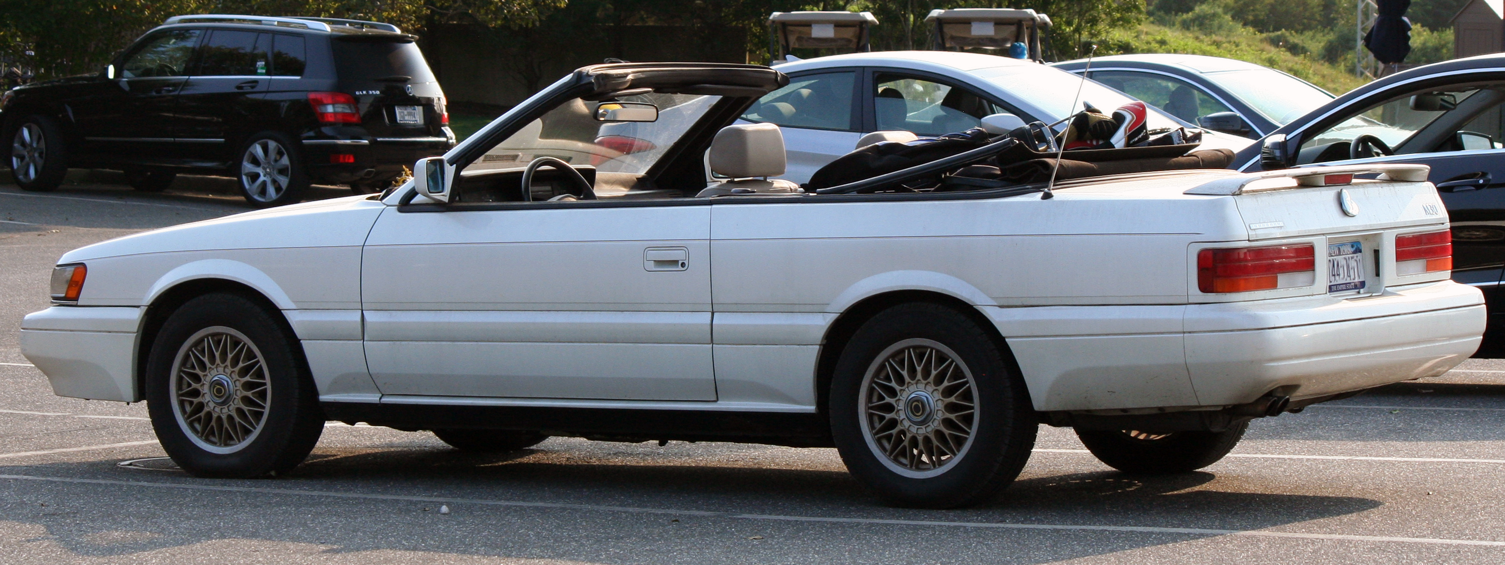 1991 Infiniti M30 Convertible seen in Amagansett, NY